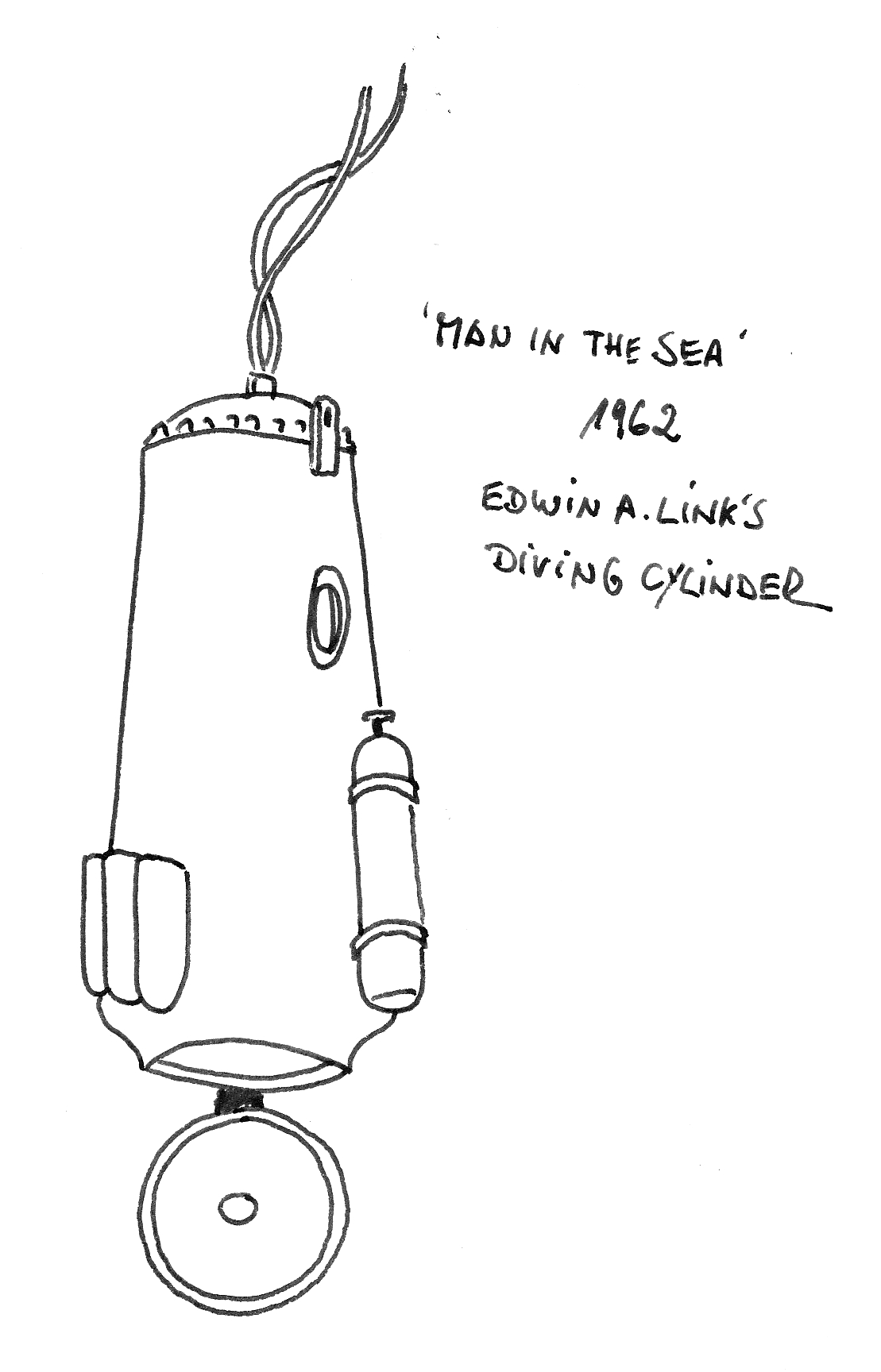 Diving Cylinder used by Edwin A. Link in his "Man in the Sea I" program